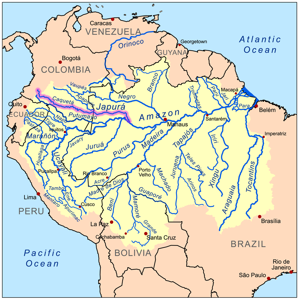 This is a map of the Amazon River drainage basin with the Japurá River highlighted.